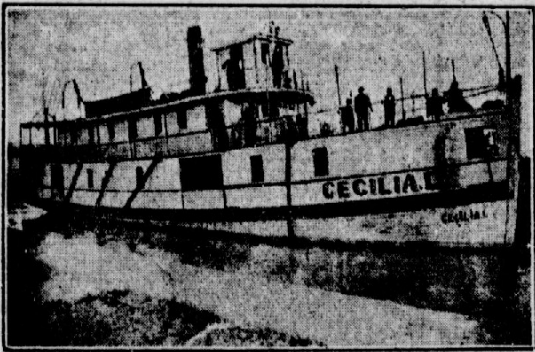 The steamboat 'SS Cécilia L' between Montréal and Valleyfield, Quebec. (Photo taken between 1910 and 1912.)